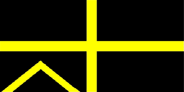 The Flag of Brong-Ahafo Region